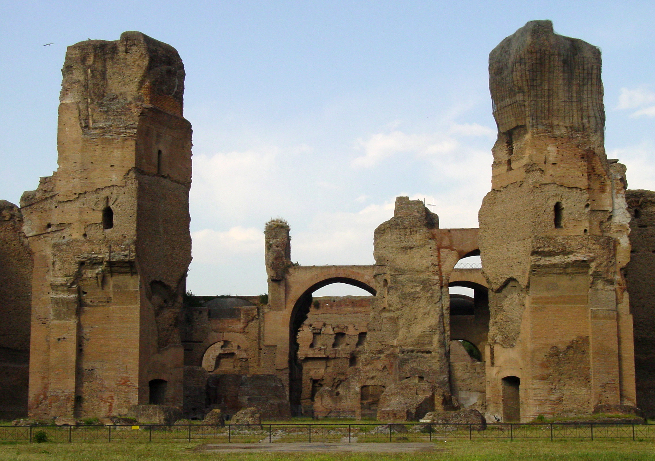 The Baths of Caracalla in Rome